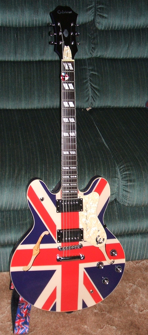 A picture of my Epiphone Supernova guitar, taken by me.